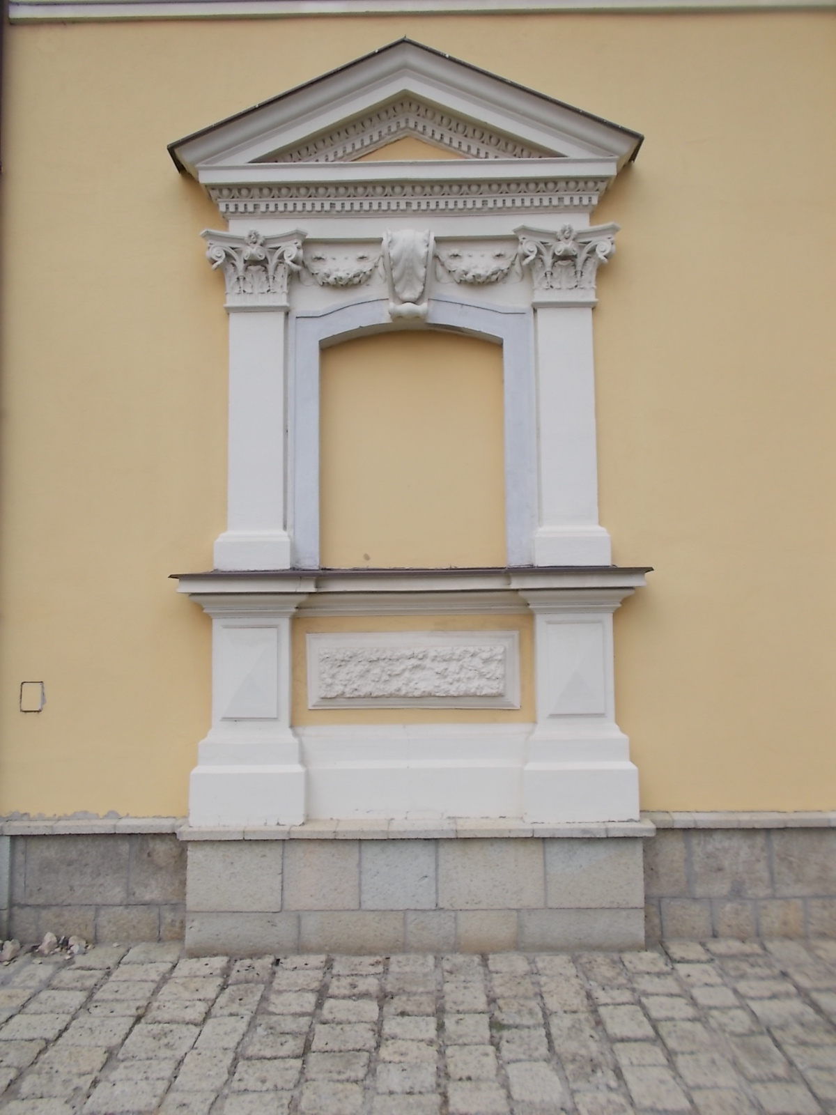 Lutheran Great Church, Baroque origin, 1784-1786. Reconstructed in eclectic neo-baroque style between 1850-1860, 1885-1886 and 1936. - Luther Square, Nyíregyháza, Szabolcs-Szatmár-Bereg County, Hungary.